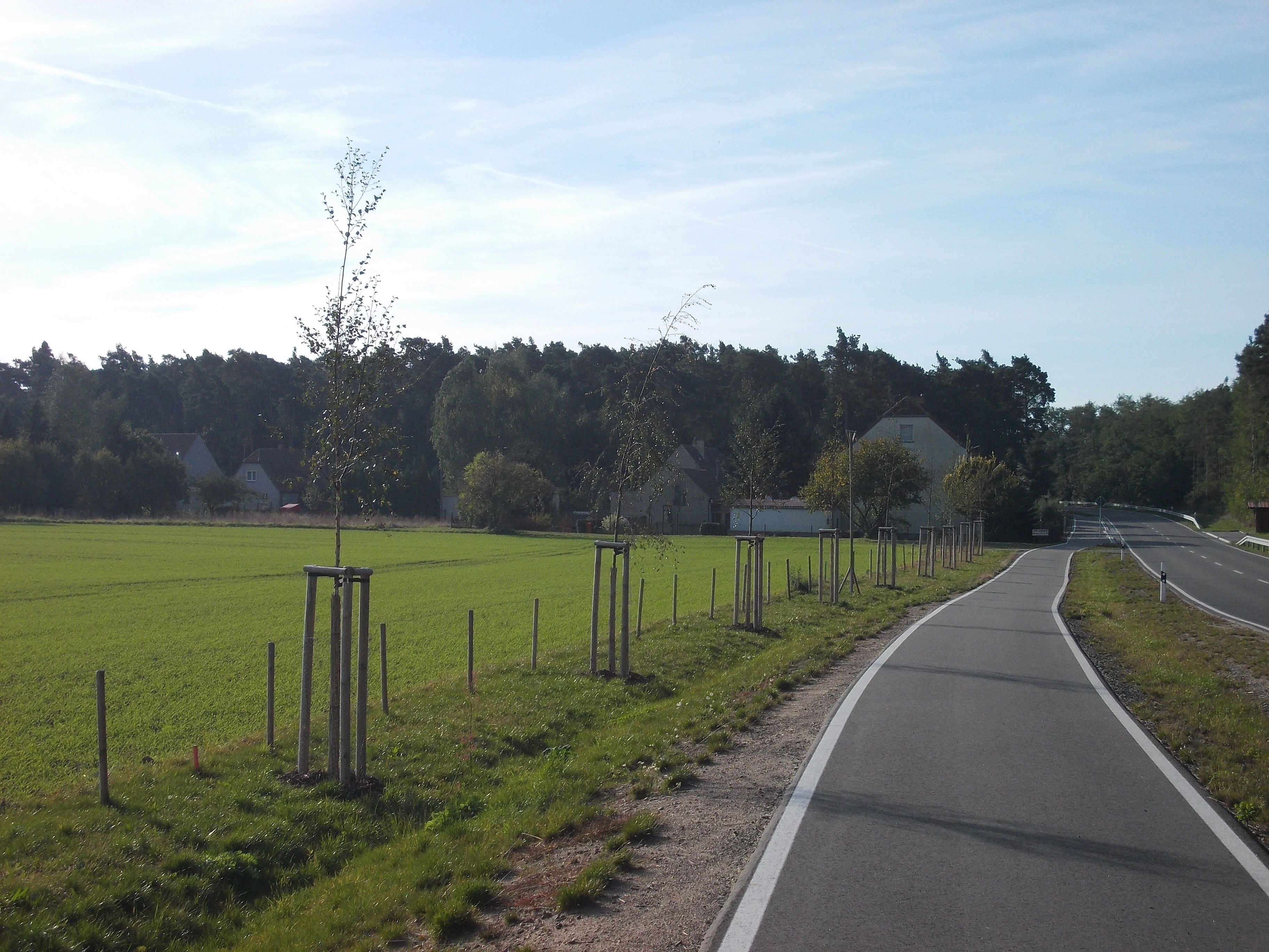 Prausitz (Arzberg, Nordsachsen district, Saxony) from the north